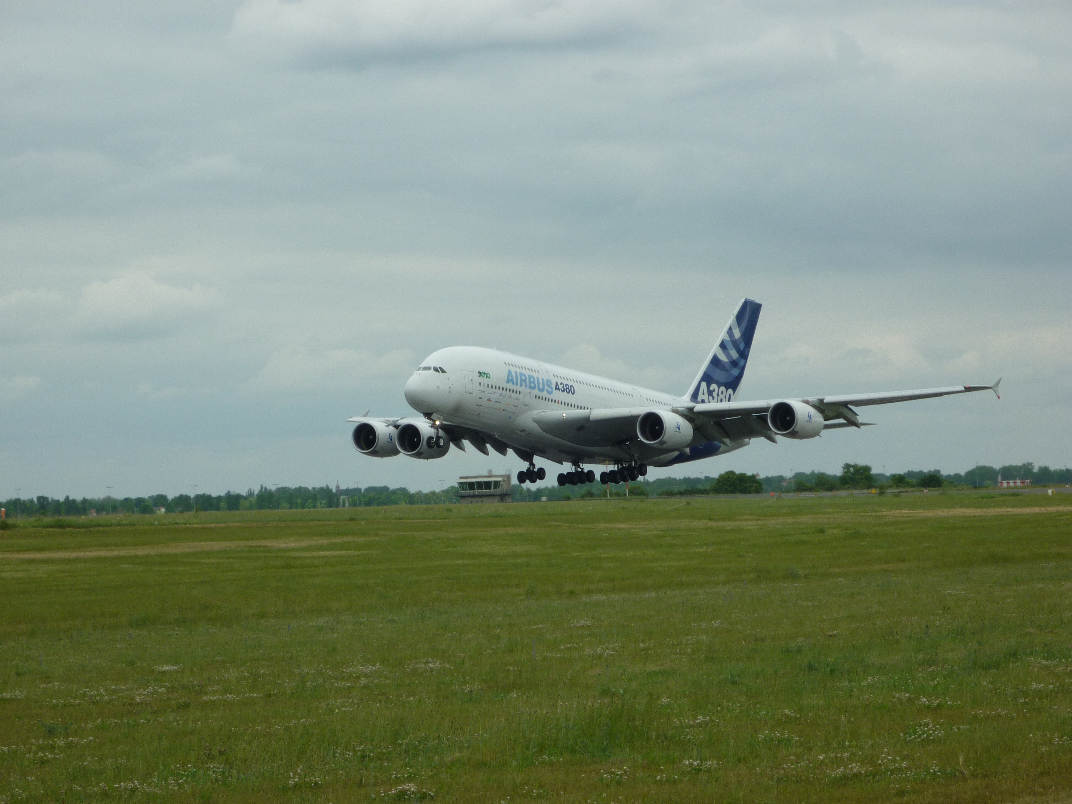 Airbus A380 F-WWODlanding at SXF.